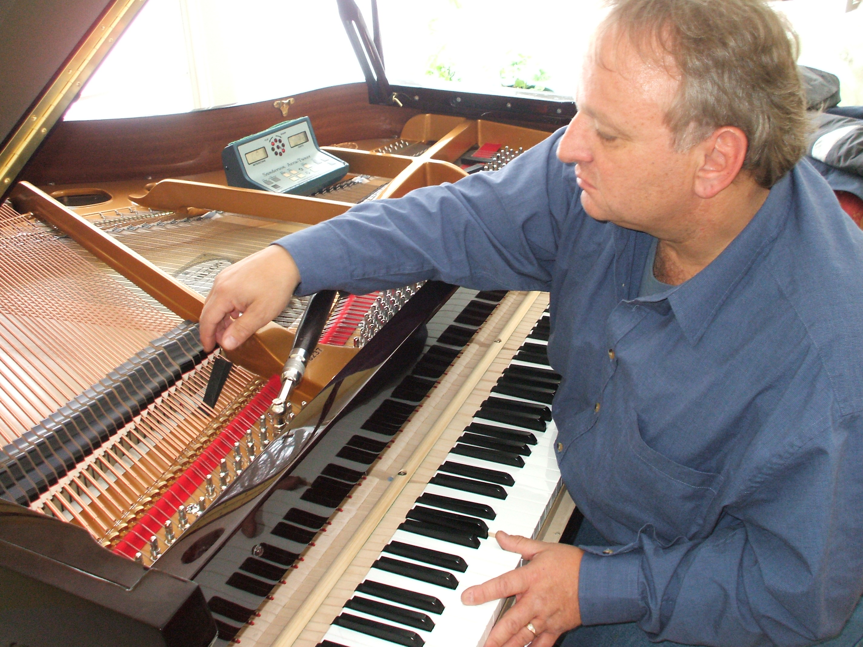 Piano tuner